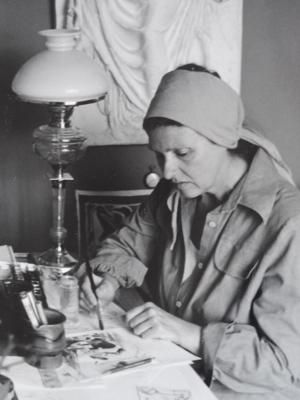 The Danish artist Astrid Tjalk doing watercolour 1986